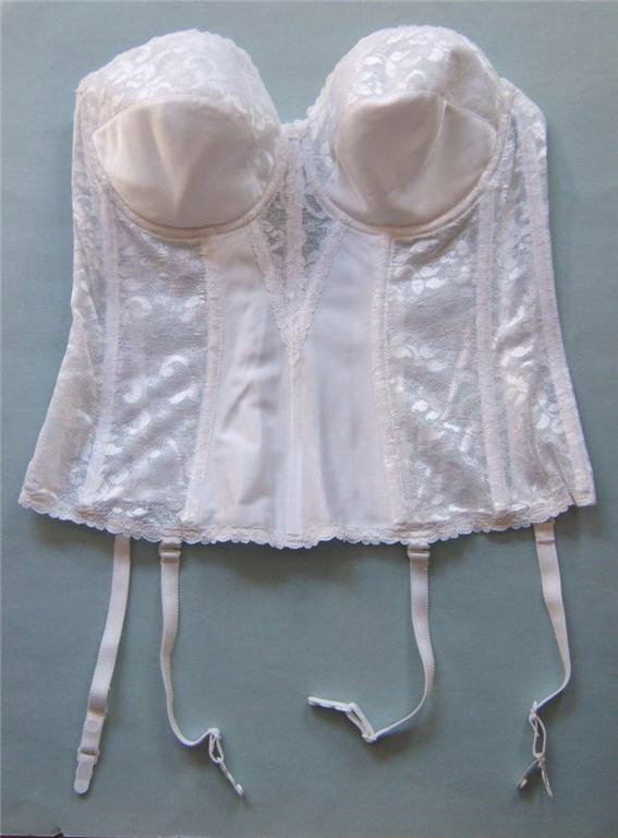 White satin corsage